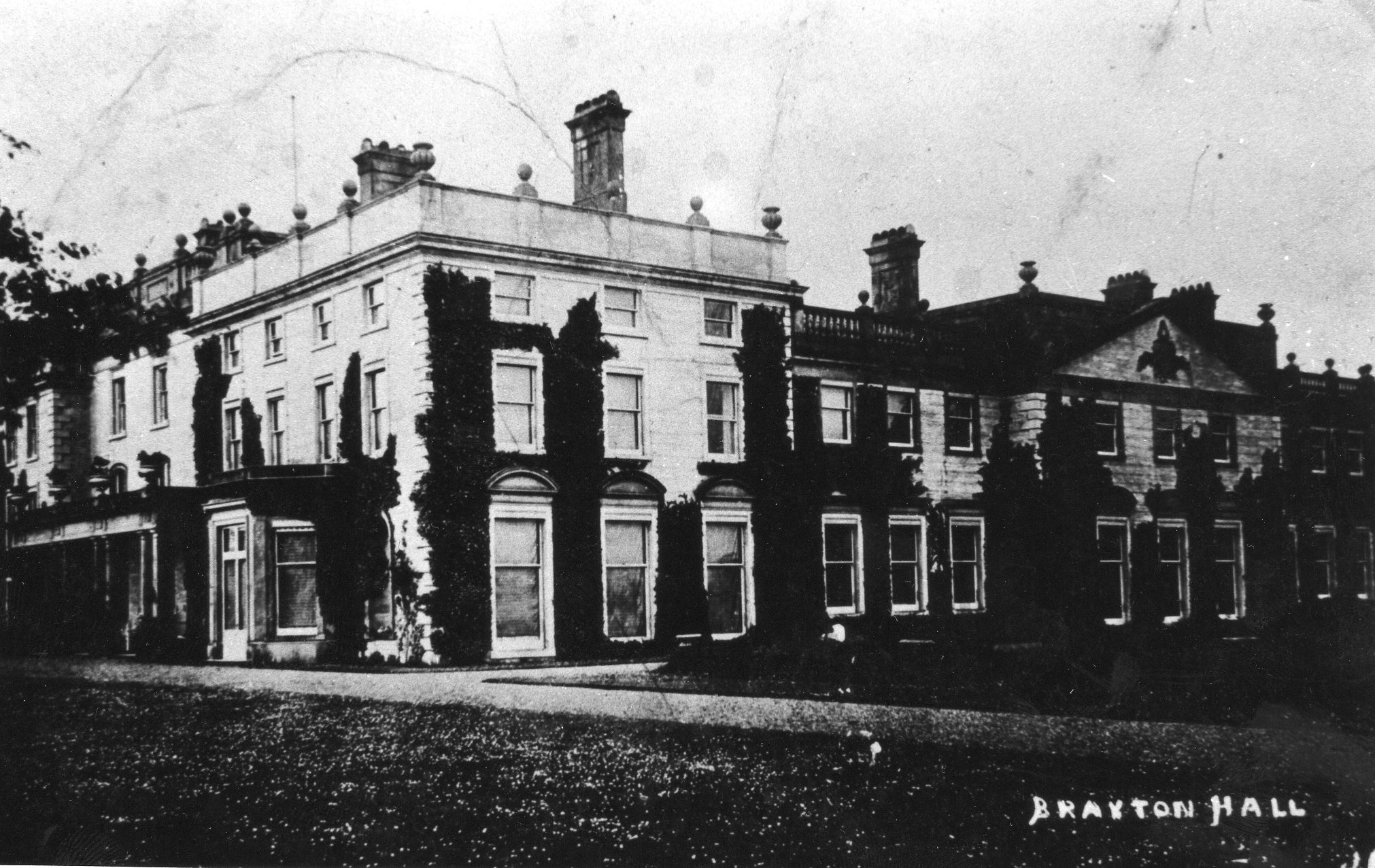 Brayton Hall Looking From The South West